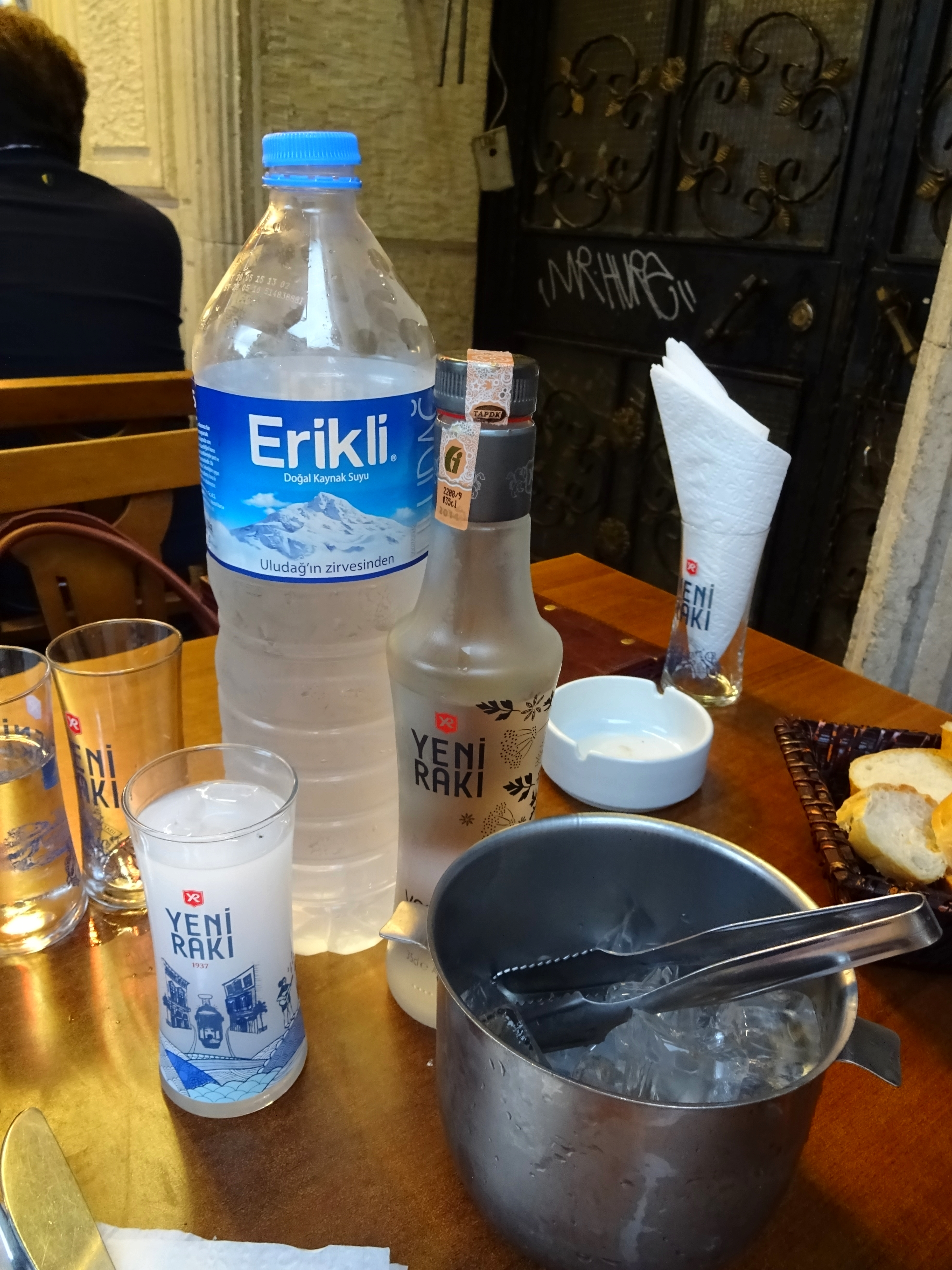 Yeni Raki with water and ice cubes. Typical setting in Raki tavern in Istanbul.